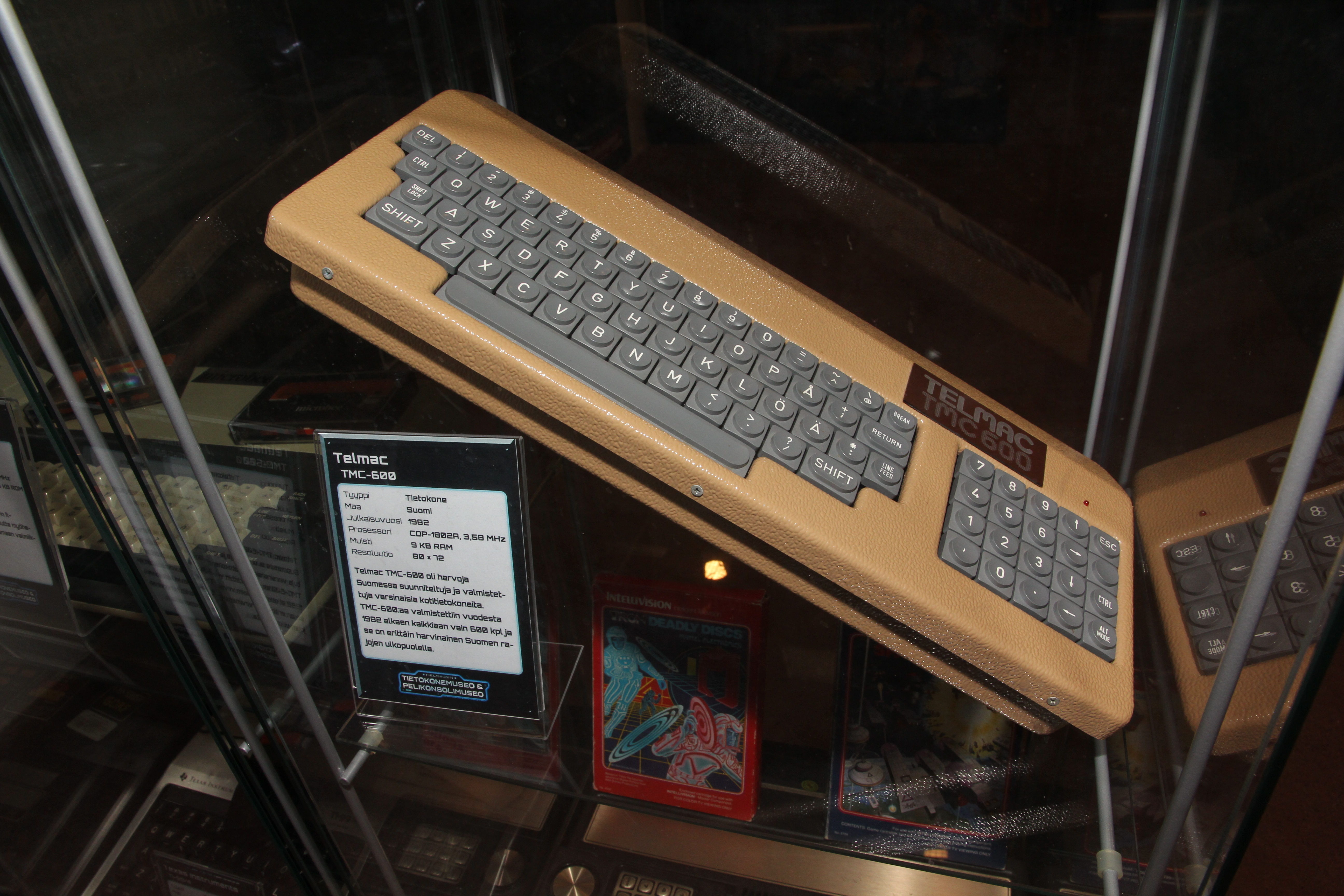 Telmac TMC-600 microcomputer in Helsinki Computer and game console museum.